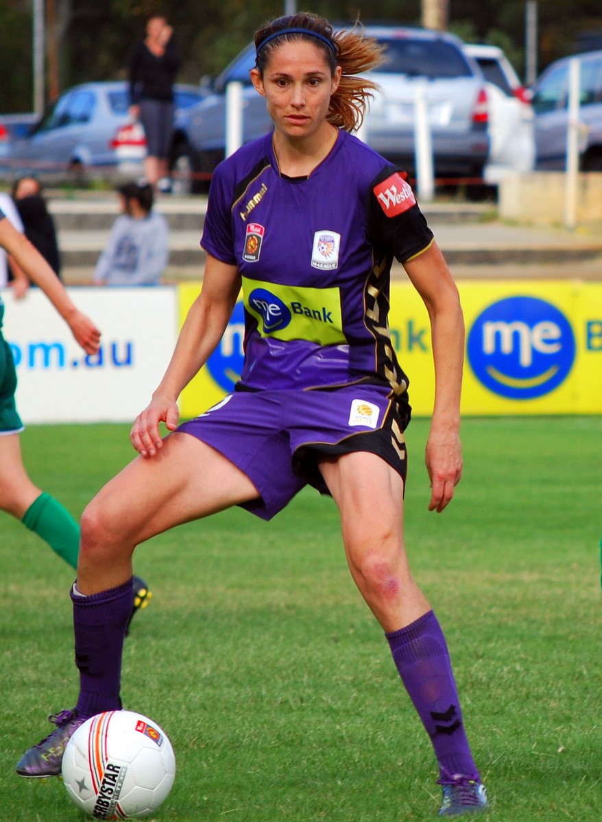 Katie Gill playing for WA side Perth Glory in the W-League